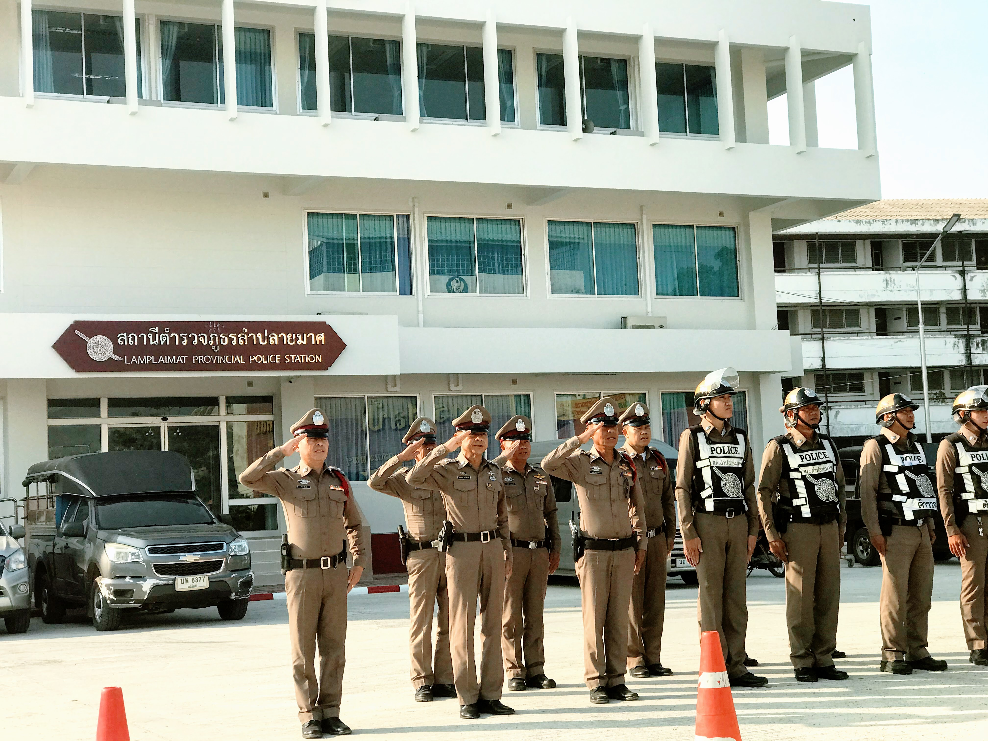 Lam Plai Mat Police Station cops